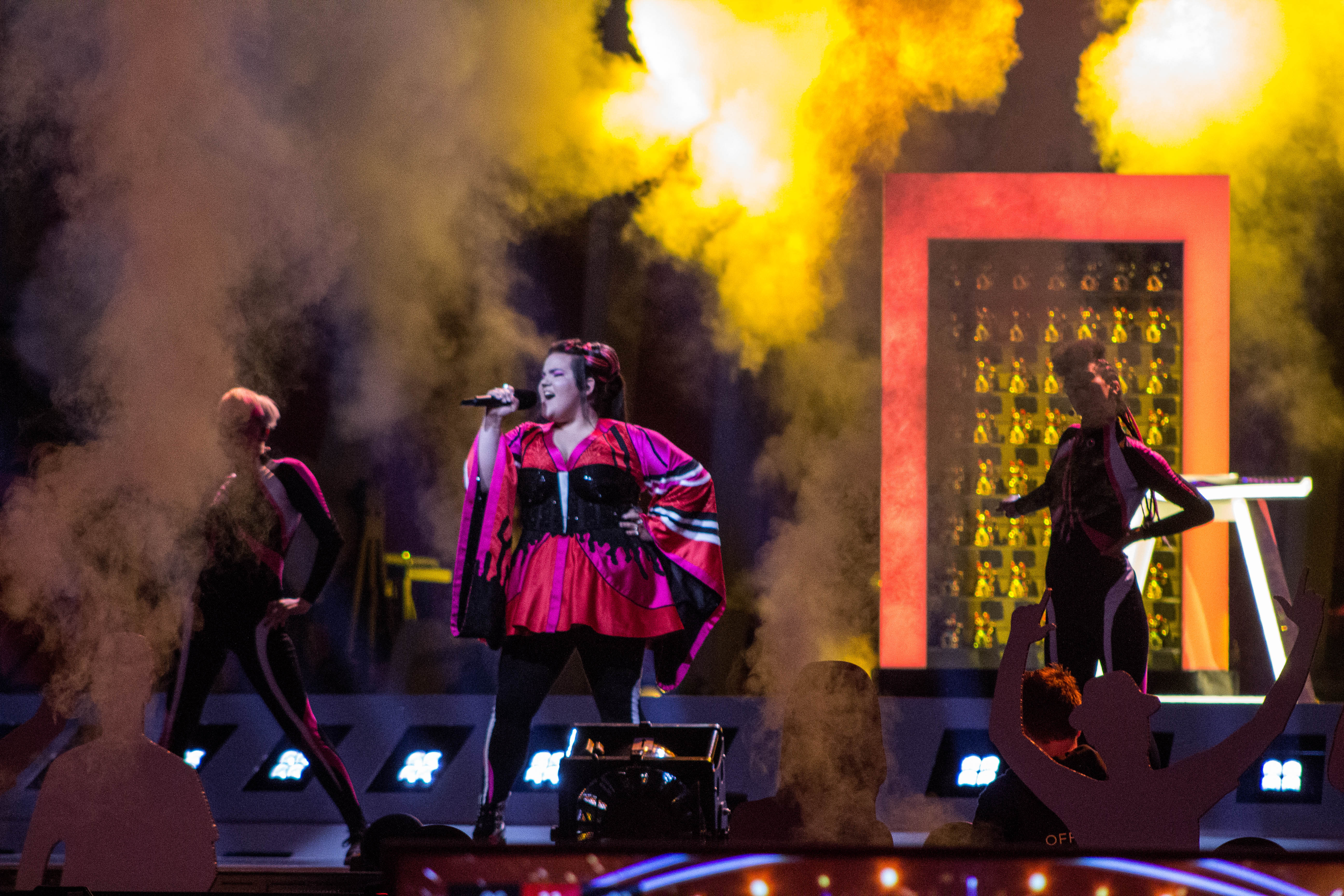 Netta representing Israel with the song "Toy" during a rehearsal before the first semi final of the Eurovision Song Contest 2018 in Lisbon.